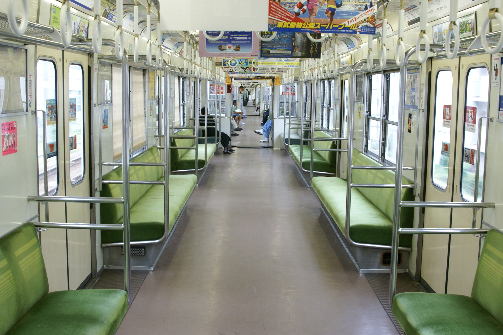 Interior of a Tobu 8000 series EMU taken near Kawagoe on the Tobu Tojo Line